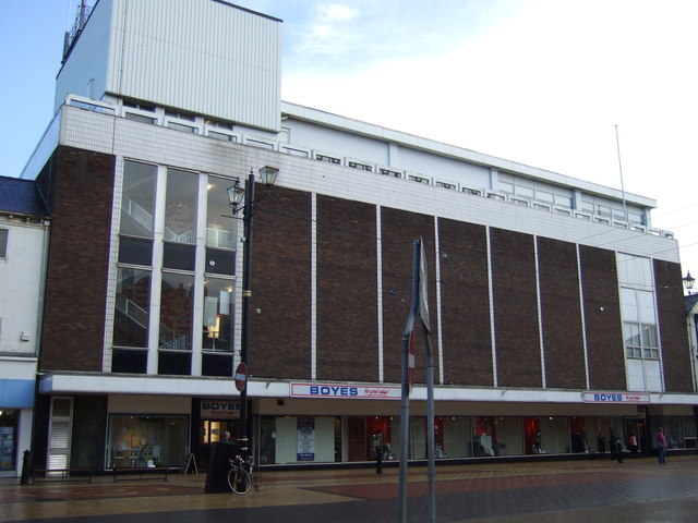 Boyes, Bridlington, East Riding of Yorkshire, England.